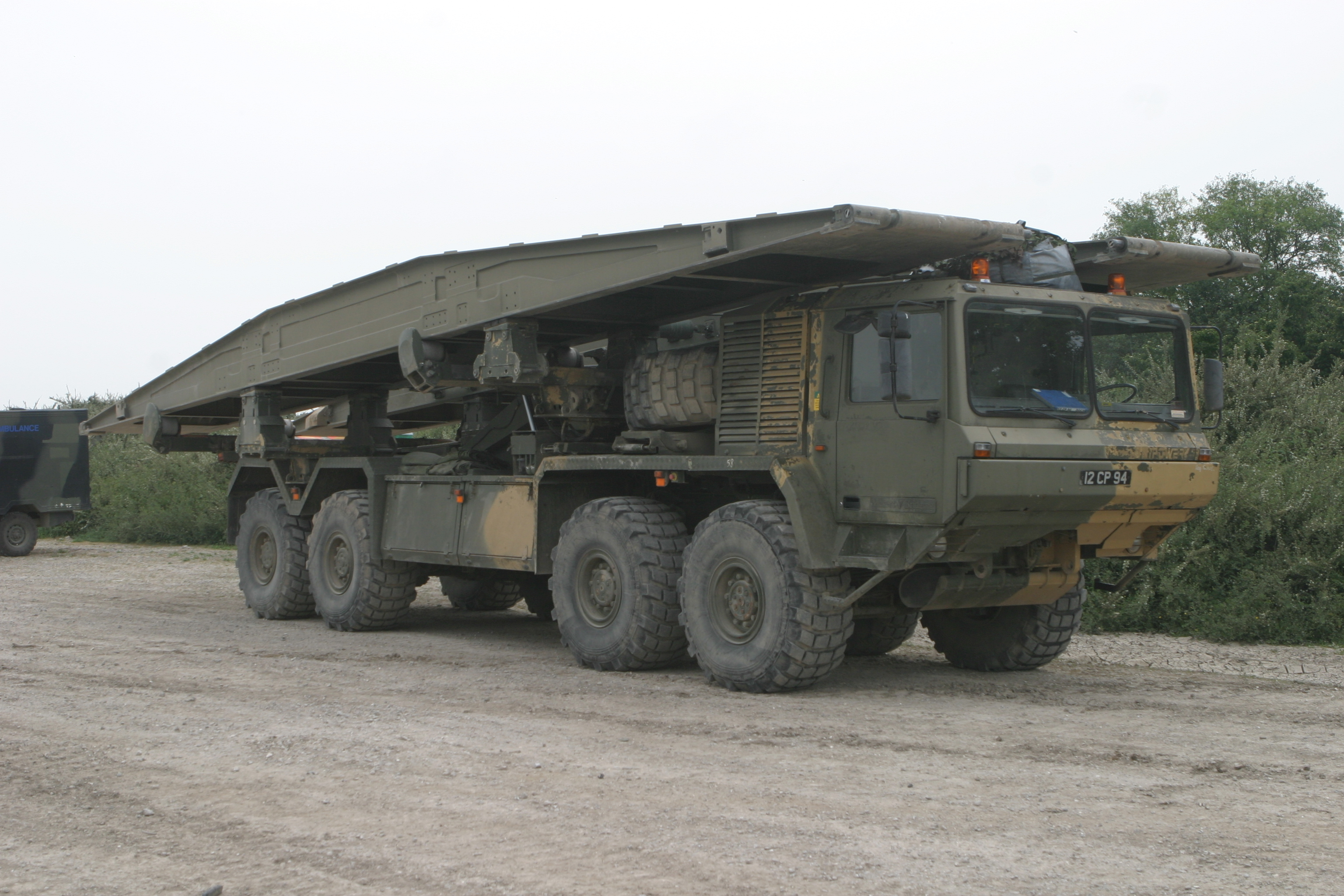 Alvis Unipower TBT (Tank Bridge Transporter) of the British army.